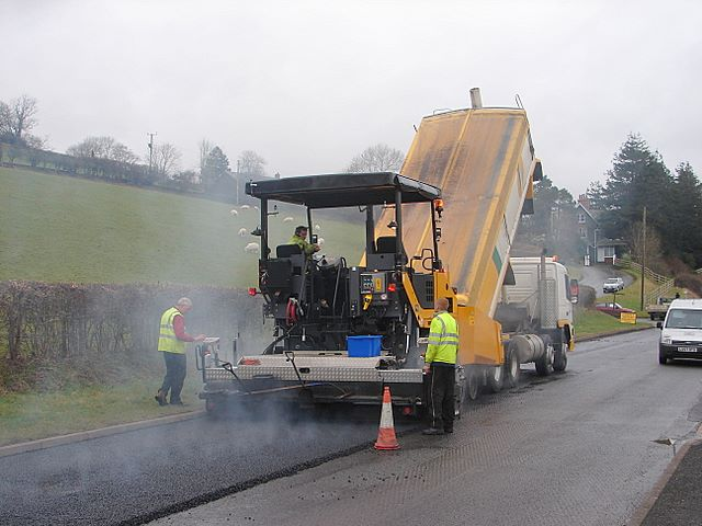 Repairing the A44 Another view of the tarmac laying operation.